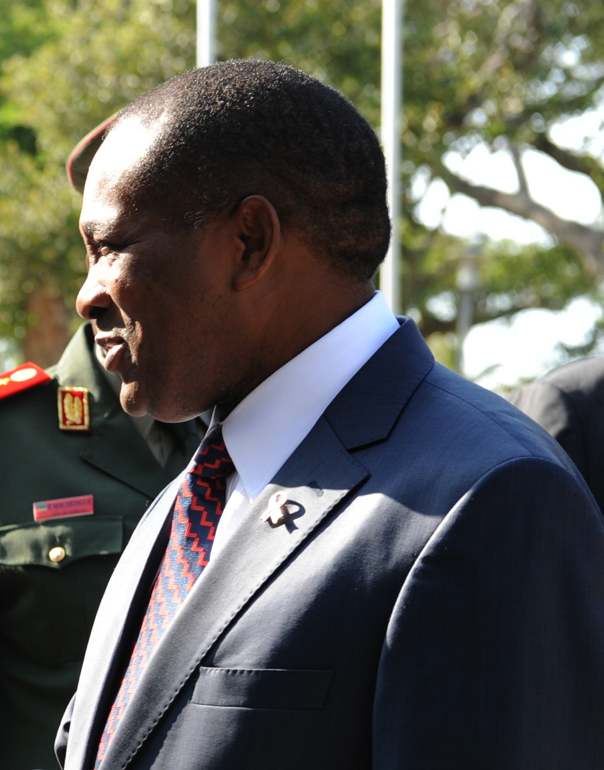 MAPUTO, Mozambique -- Prime Minister of Mozambique Aires Ali before the opening remarks of the 2012 International Military HIV/AIDS Conference here May 7. Military and civilian delegates and subject matter experts from 77 nations gathered for the 2012 International Military HIV/AIDS Conference in Maputo, Mozambique, May 7- 10, to share best practices in HIV prevention, care and treatment.. (U.S. Air Force photo/Staff Sgt. Benjamin Wilson)